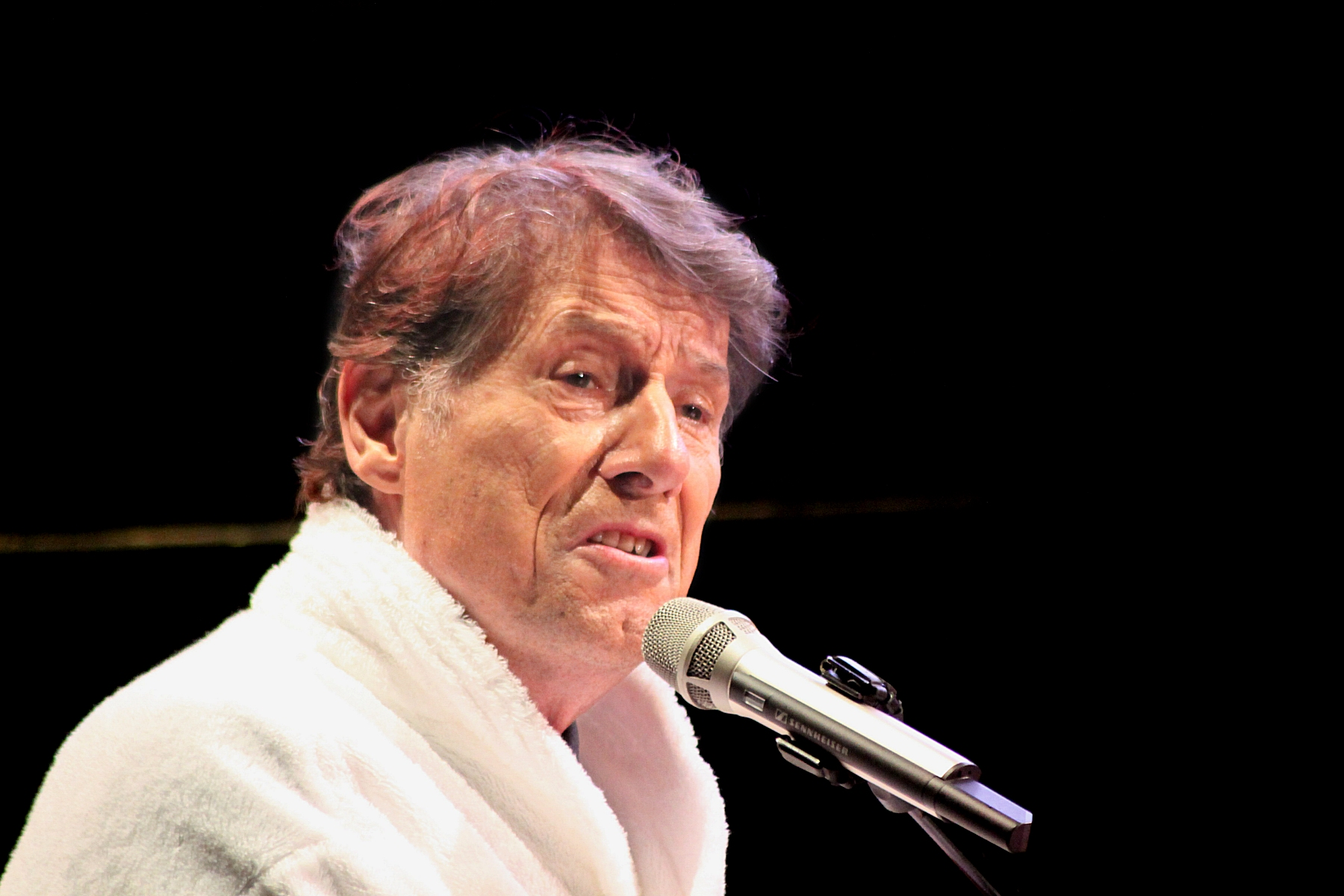 Udo Jürgens in concert at “Der Soloabend 2010” in Sankt Margarethen im Burgenland (Austria)